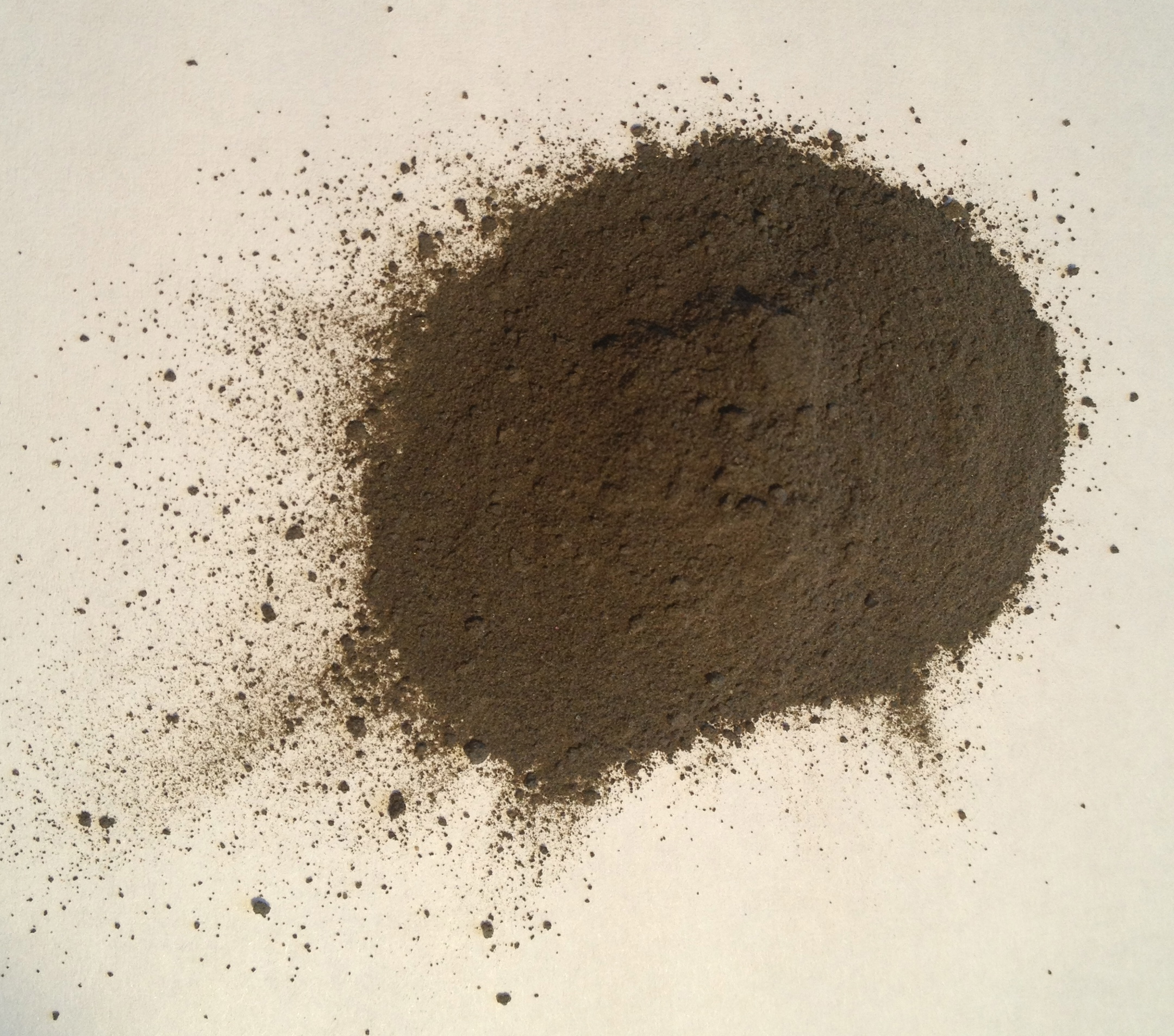 A sample of about 5 ml of JSC-1A lunar regolith simulant.